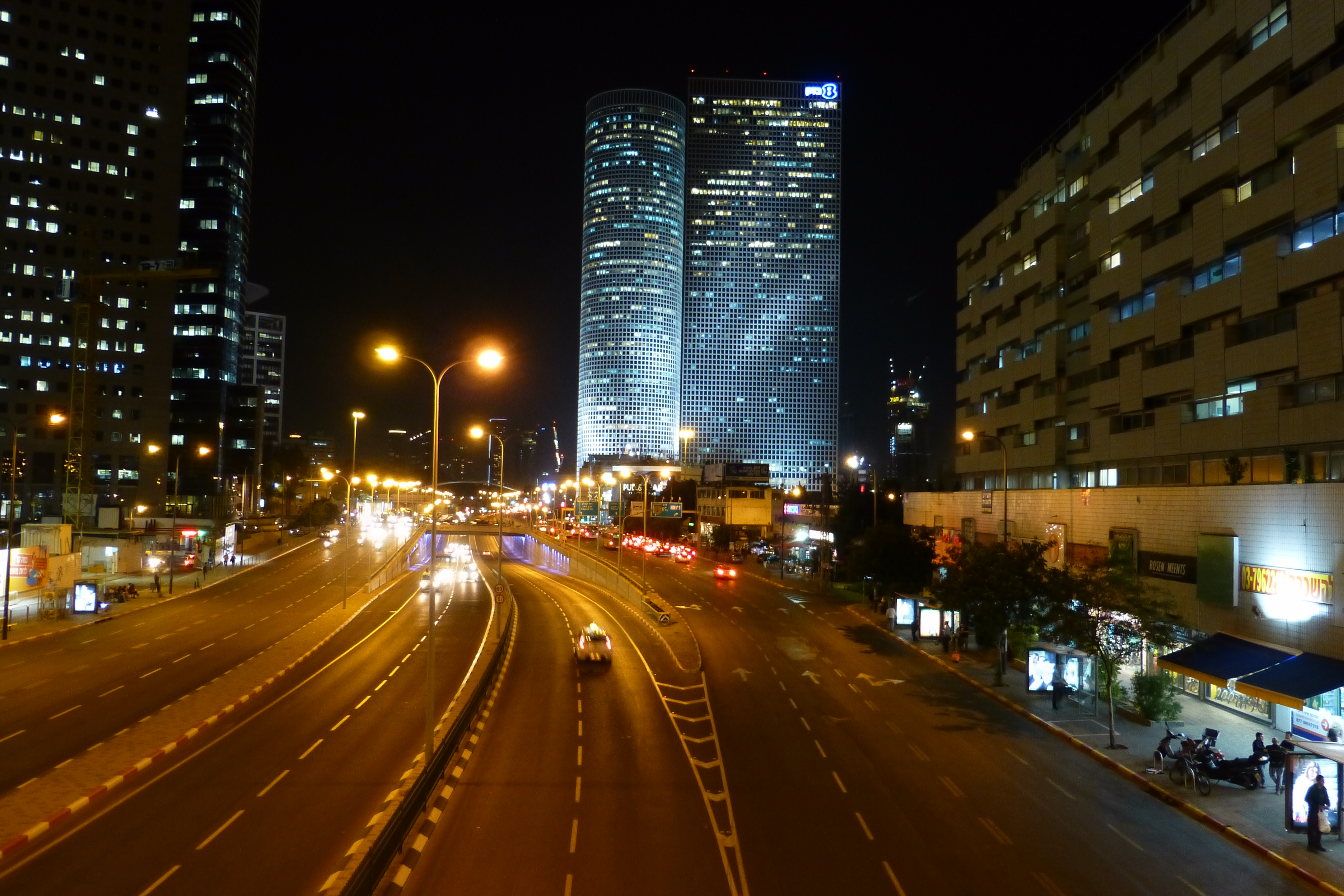 A2 (Israel)